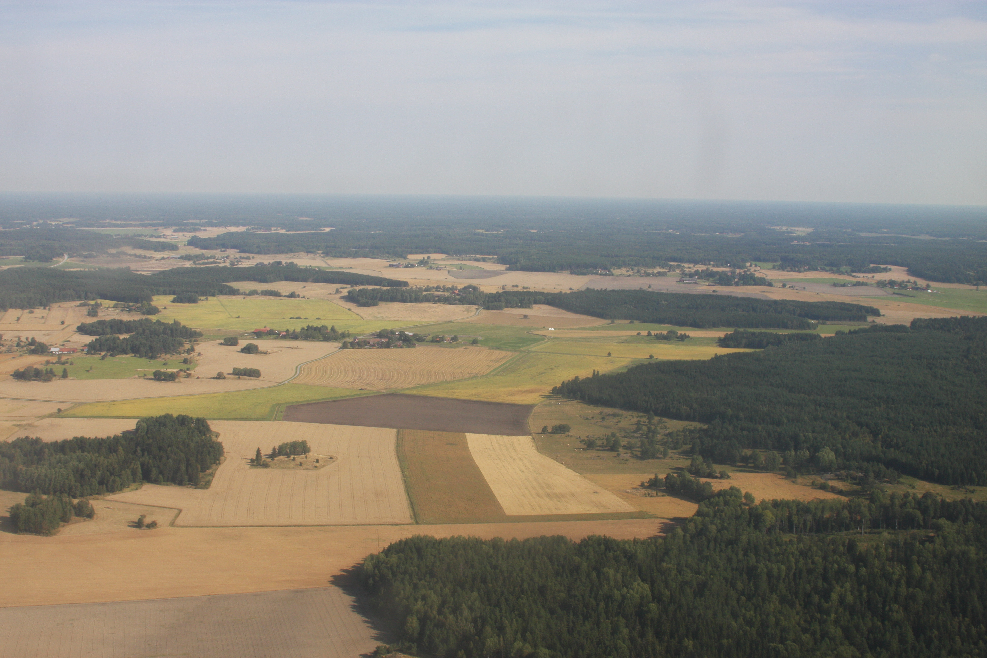 Vasa-Herresta area of Sigtuna kommun, eastern Sweden, just east of Arlanda airport.